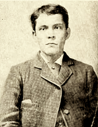 George Appo (1858-1930), New York criminal and son of the "Chinese Devilman" Quimbo Appo